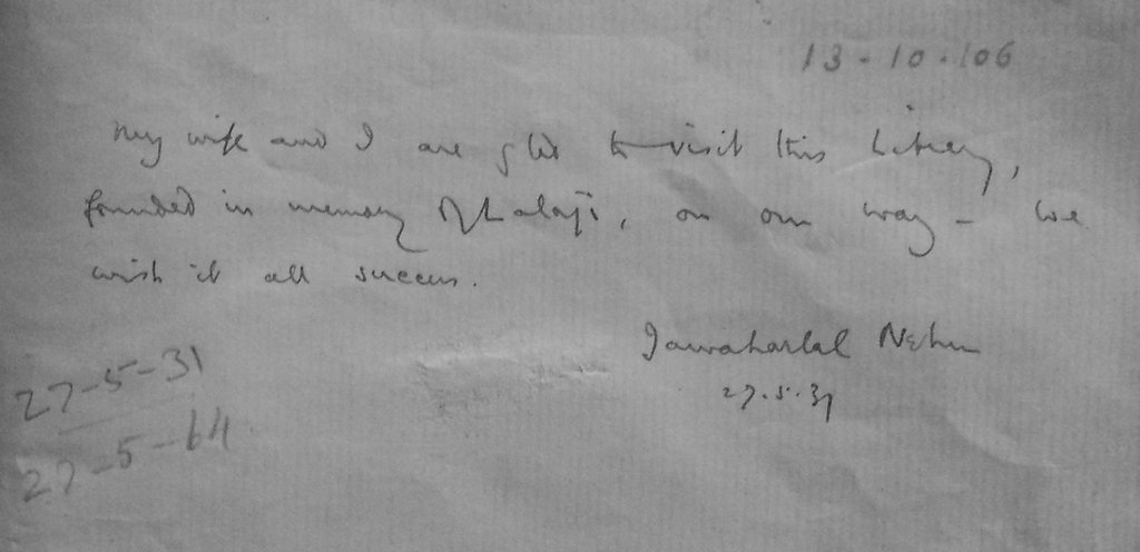 Javaharlal nehru's hand writing in Karunagapally Lalaji library's visitors book